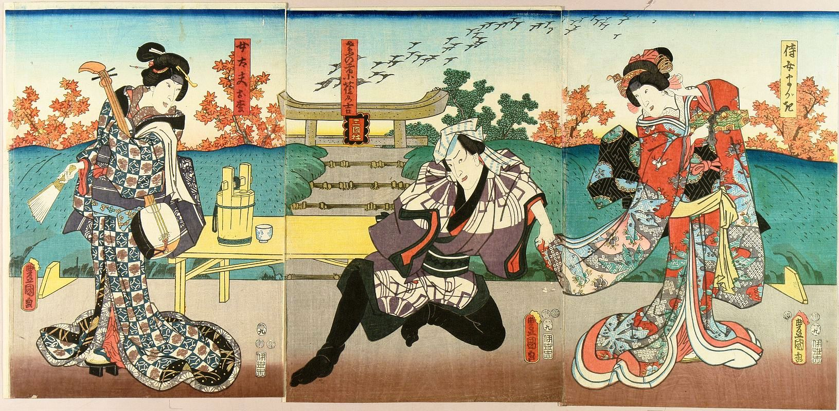 Artist Utagawa Kunisada I (Toyokuni III), Japanese Kabui actors. 1853